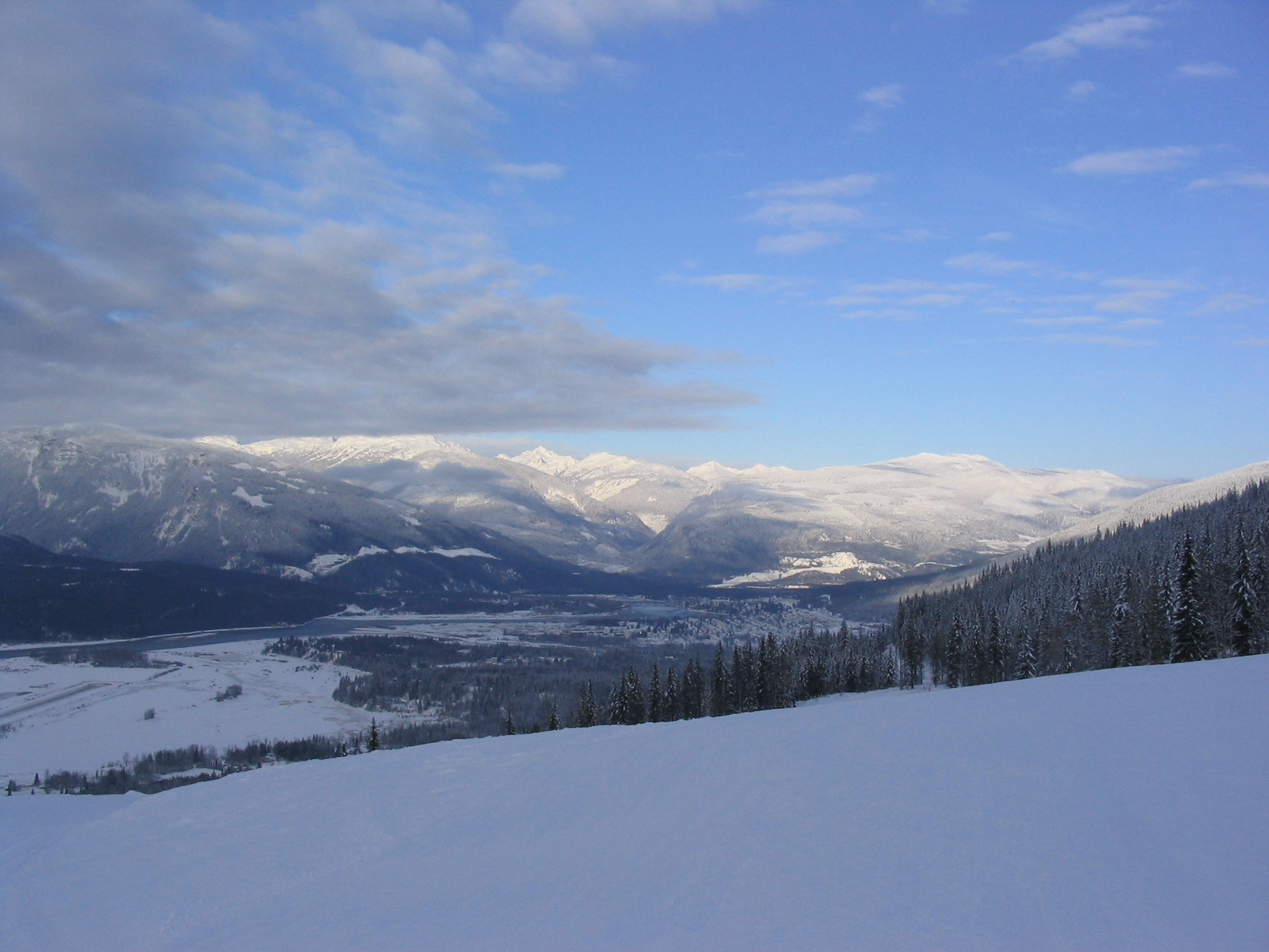 View of the Columbia Valley and Revelstoke, in winter, from the Powder Springs ski hill